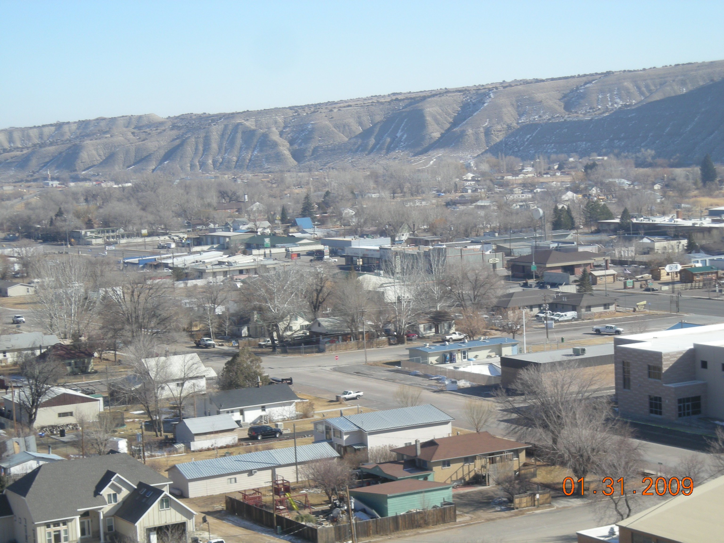 Duchesne Utah from the top of the west bench water tank. The buildings in the center of the picture are the old Kohls market and Commercial Club.